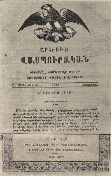 Artsiv Vaspurakan (in Armenian Արծիւ Վասպուրական) was an Armenian periodical. It was published monthly, then weekly, in Constantinople and Varagavank from 1855 to 1874 by Mkrtich Khrimian and M. Ananian.